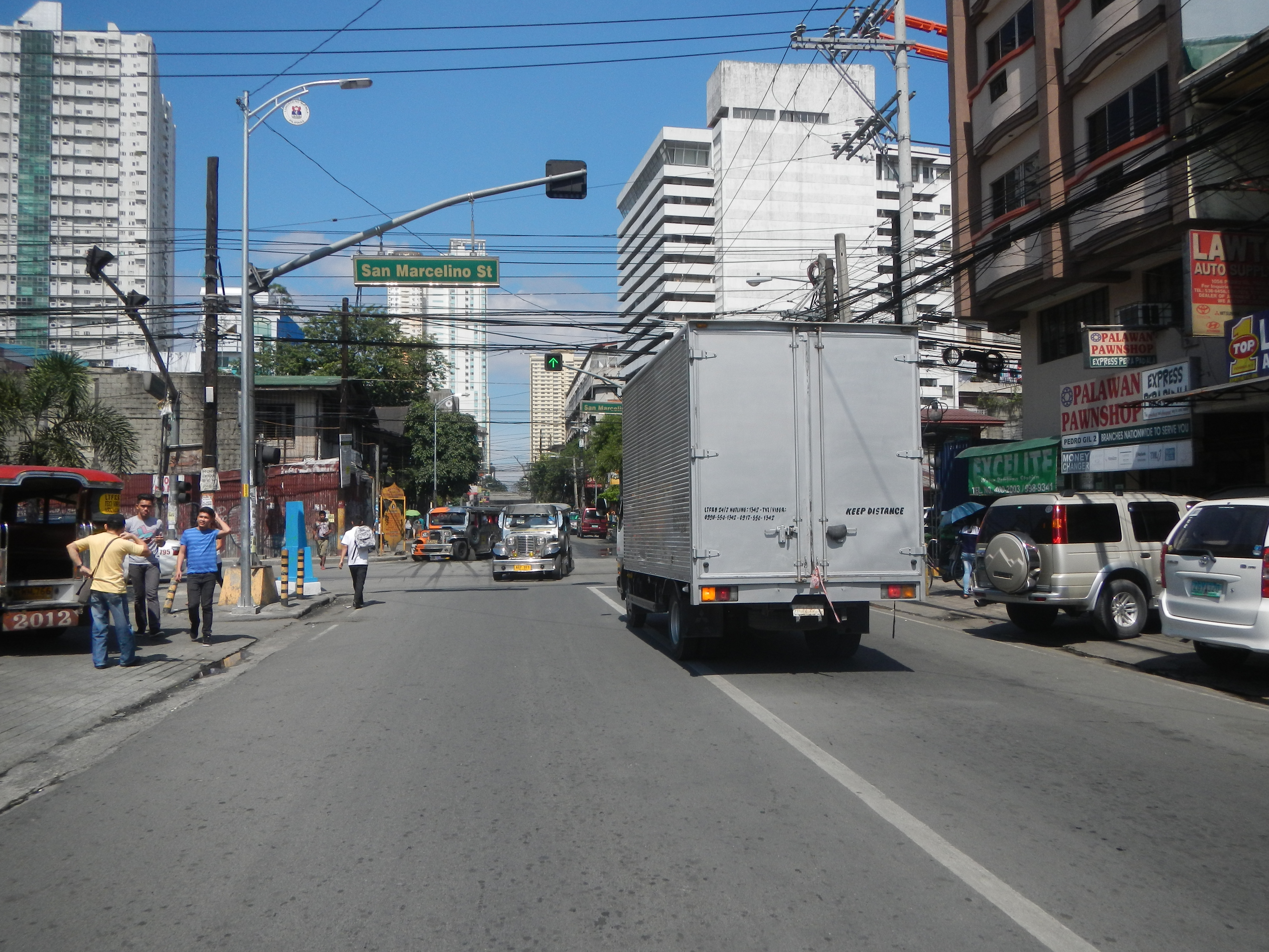 Pedro Gil Street corner Leon Guinto Street corner Agoncillo Street and San Marcelino Street corner Singalong Street located in the List of barangays of Metro Manila Legislative districts of Manila 5th District, Barangays 812, 819, Zone 88, Distict V, Paco, Manila, City of Manila List of barangays of Metro Manila Legislative districts of Manila Barangays 675 & 679, Zone 74, 687, Zone 75, to Barangays 869, Zone 95, 790, 791, 792, Zone 86, 873, 874, 875, Zone 96, Distict VI, Santa Ana, Manila City of Manila; Note: Judge Florentino Floro, the owner, to repeat, Donor Florentino Floro of all these photos hereby donate gratuitously, freely and unconditionally all these photos to and for Wikimedia Commons, exclusively, for public use of the public domain, and again without any condition whatsoever).